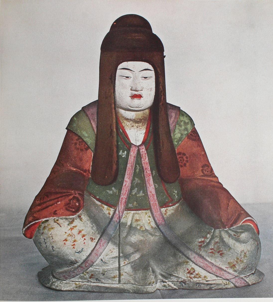 Nakatsuhime wood ｃolored 38.8 cm (15.3 in), ACE 889-898, Heian Period, One of the oldest deity statues of their kind in Japan, Chinju Hachimangu Yakushi-ji, Nara